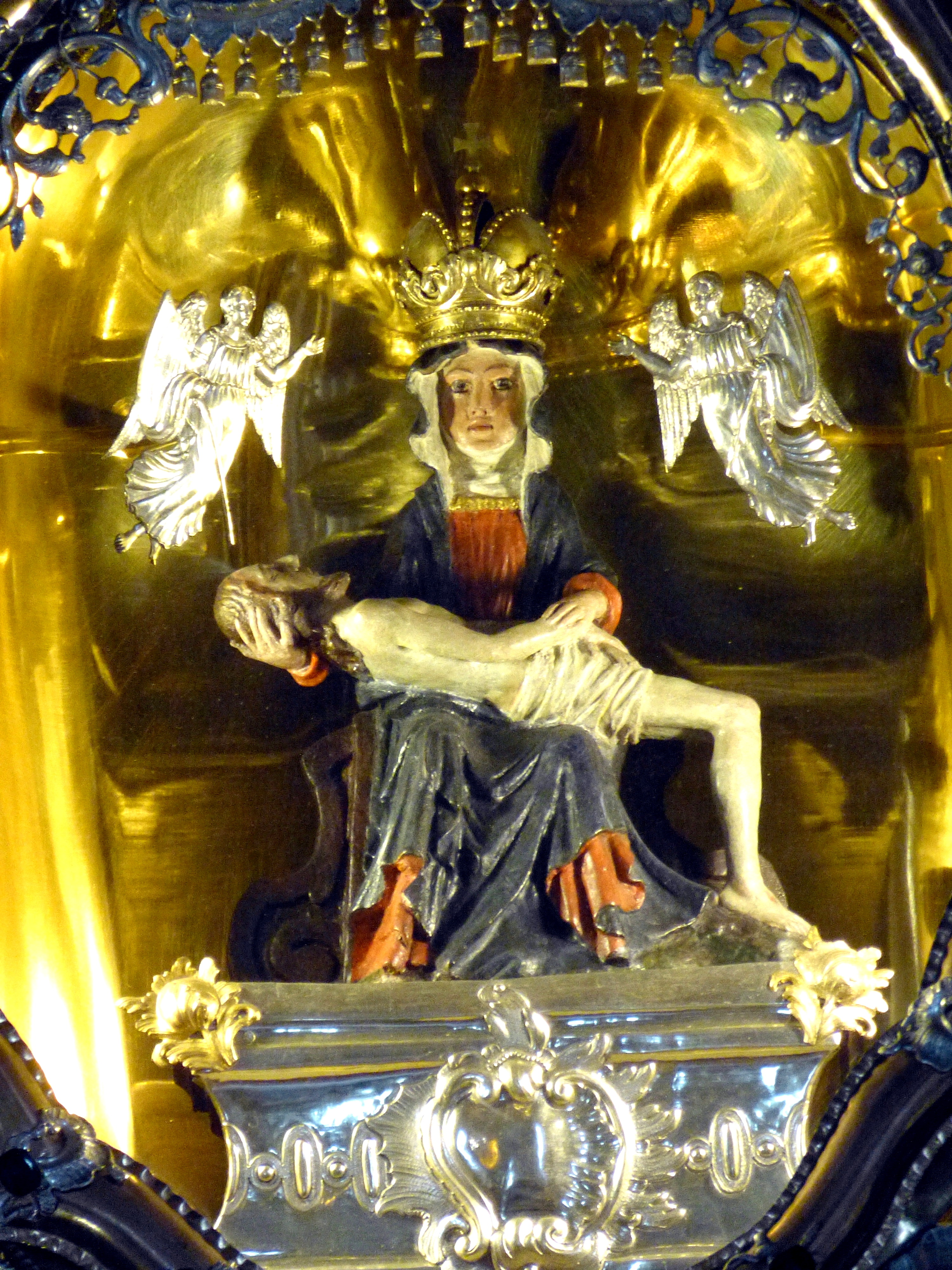 Maria Taferl ( Lower Austria ). Pilgrimage church: High altar - Pietá ( 1755 )